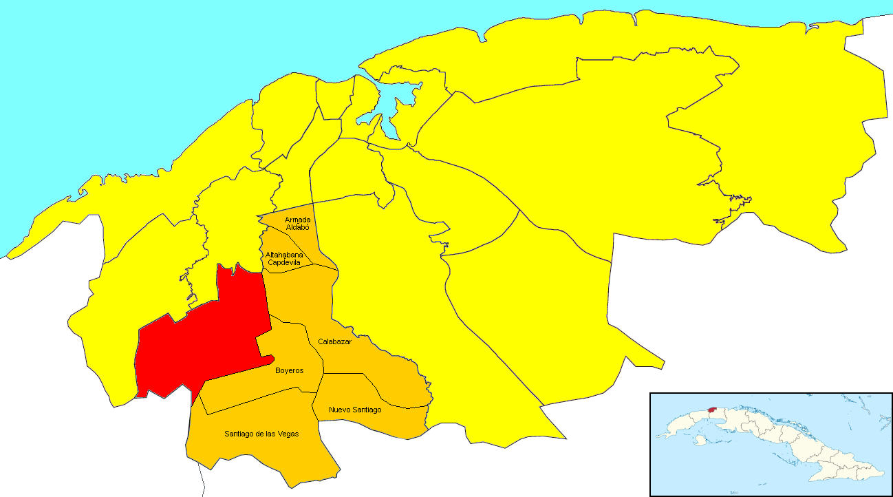 Locator map of the ward of Wajay (shown in red) within the municipal borough of Boyeros (orange) and the city of Havana (yellow). The little Cuban map in the corner shows Havana (dark red) within the island. Note: to obtain the borders of Wajay I followed this file on EcuRed.